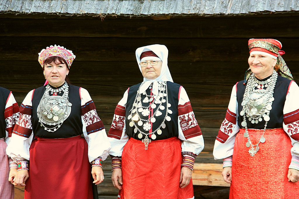 Seto women in national costumes. Silver jewelry inherited from mothers and grandmothers. Setomaa, Estonia